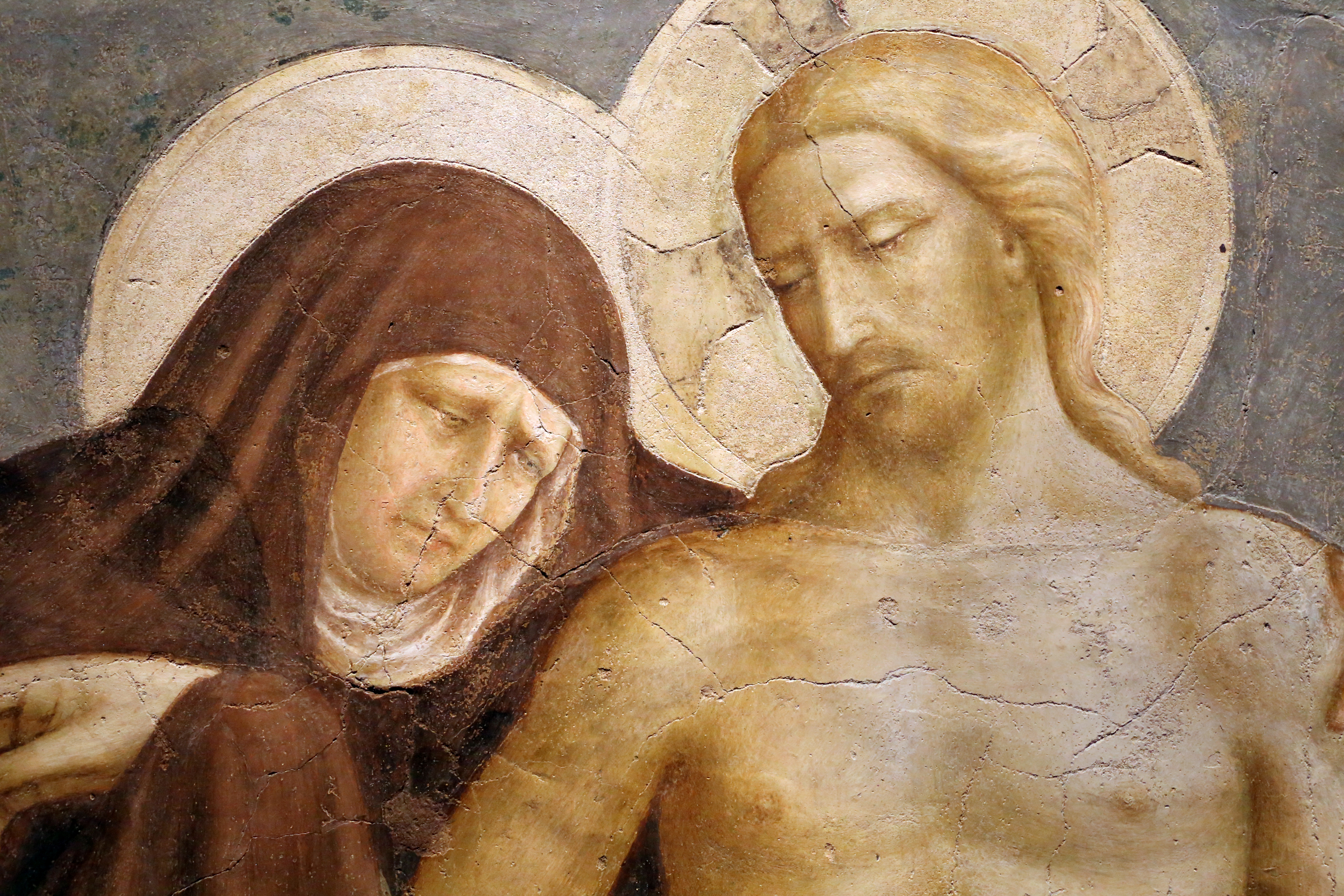 Pietà by Masolino